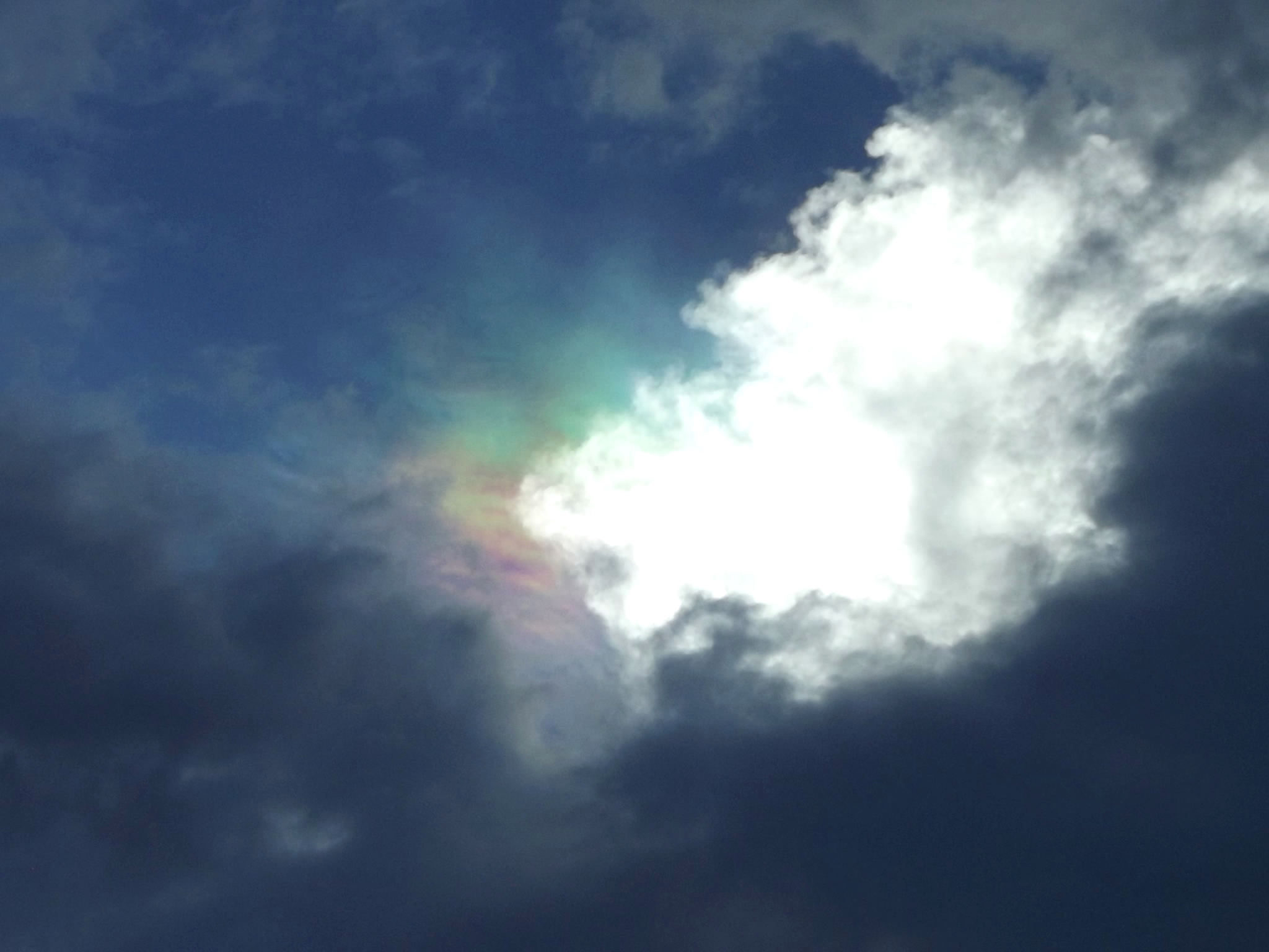 Iridescent Cloud which occurred on December 31, 2013, around 5:00 PM, in the resort Gaivotas, in a town named Itanhaém, Brazil.